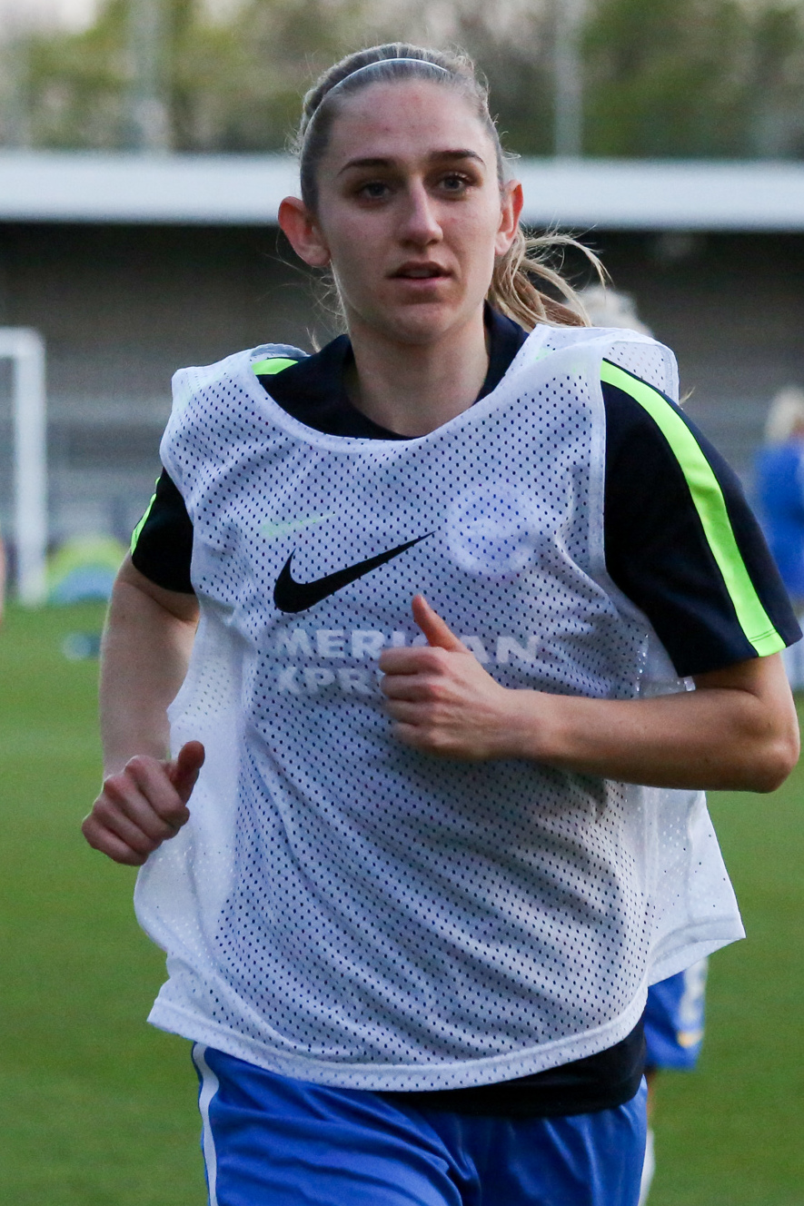 London Bees v Brighton & Hove Albion WFC, 18 April 2018 - Aileen Whelan